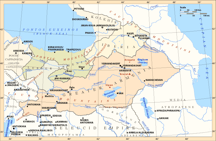 Armenian Kingdom under the royal dynasty of Orontids in 4th-3rd centuries BC. Original image caption:Orontid (Yervandouni) Armenia, 4th-2nd Centuries B.C.